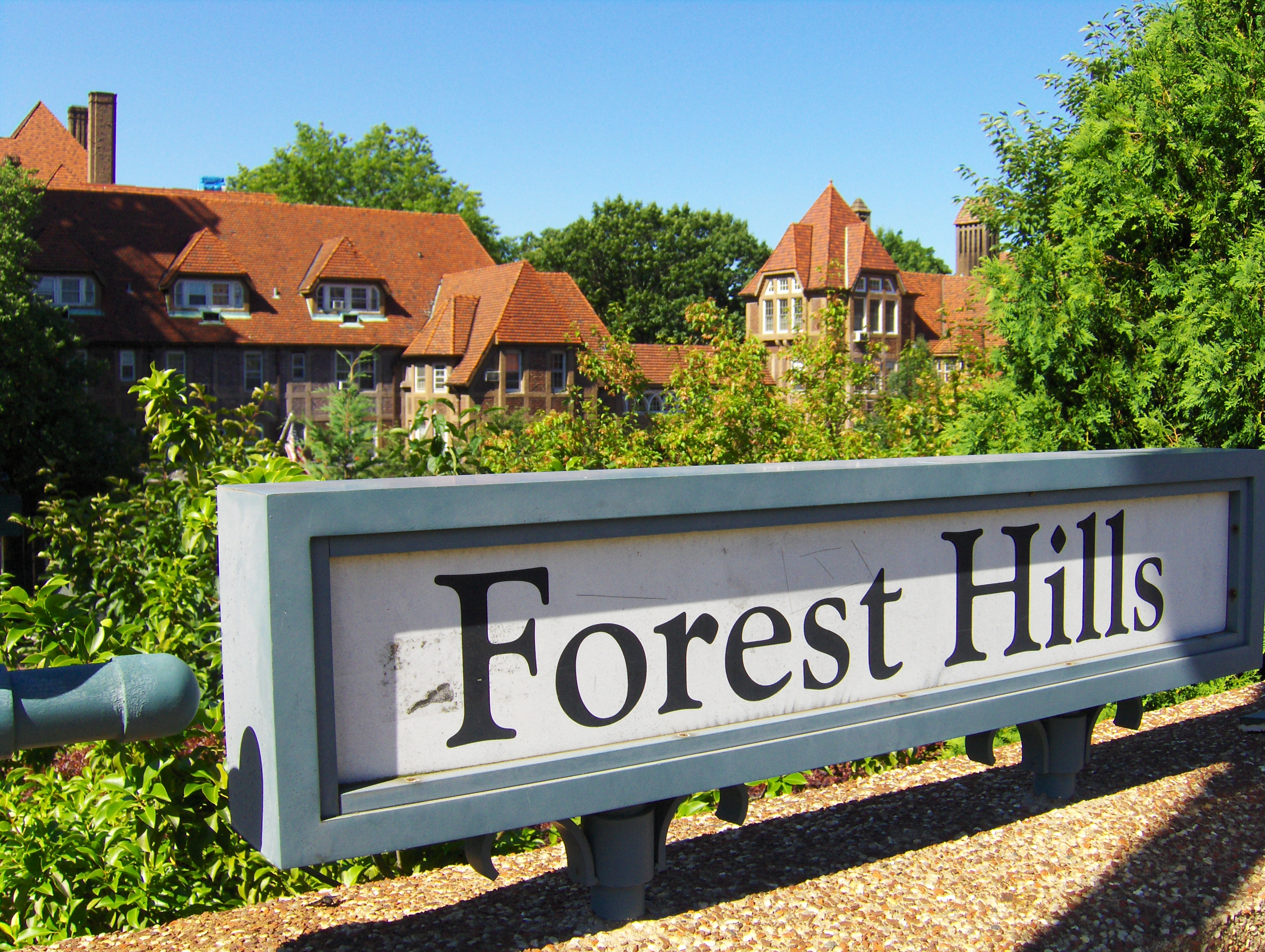 At the Forest Hills Long Island Railroad station.